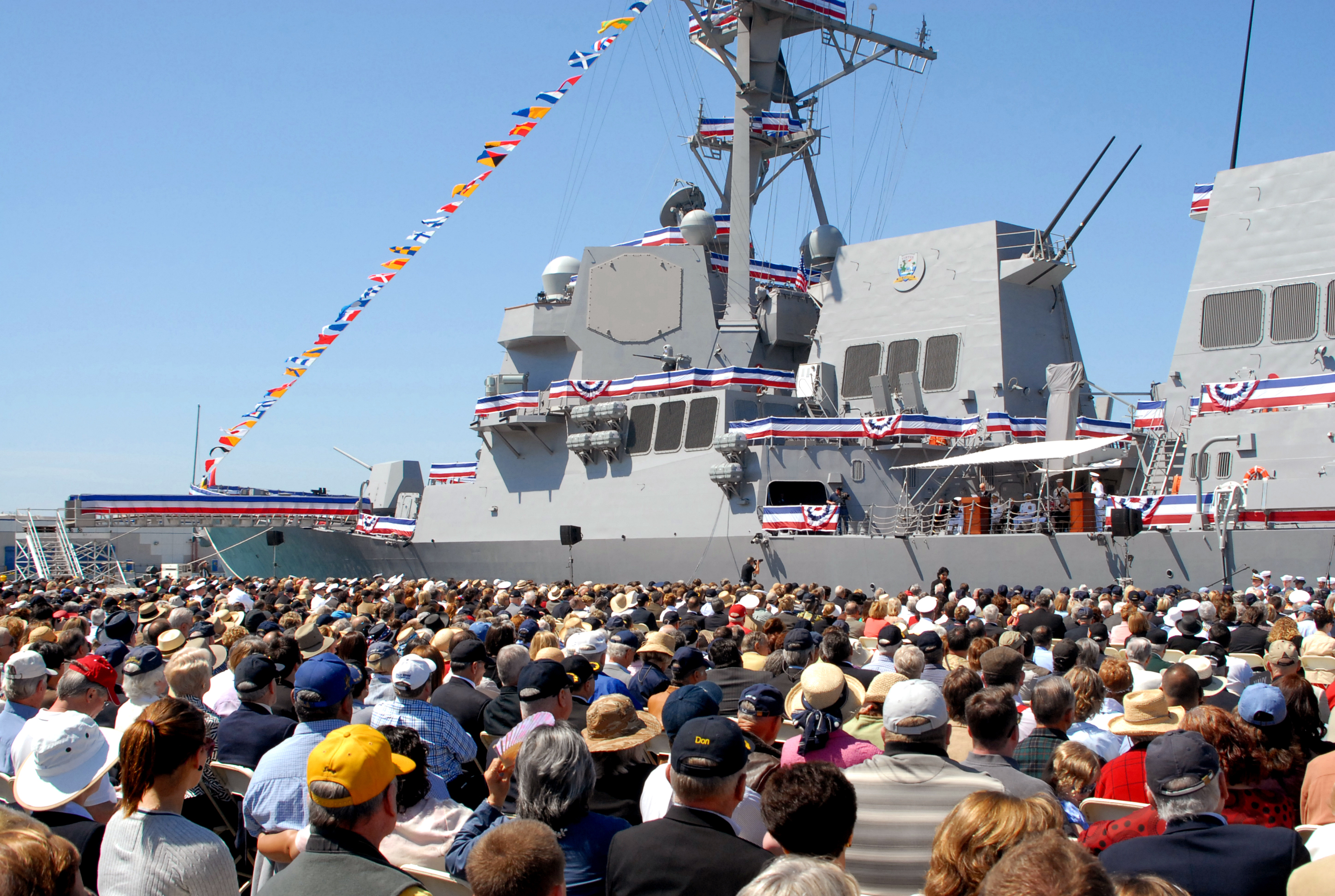 PORT HUENEME, Calif. (April 18, 2009) The guided-missile destroyer USS Stockdale (DDG-106) is commissioned at Naval Base Ventura County Port Hueneme. (U.S. Navy photo by Vance Vasquez/Released)